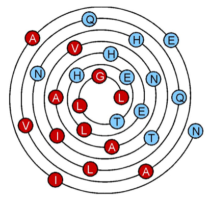 An example of the "wenxiang" coil diagram for representing the sequence and hydrophobicity of an alpha helix. Generated from the Wenxiang server.